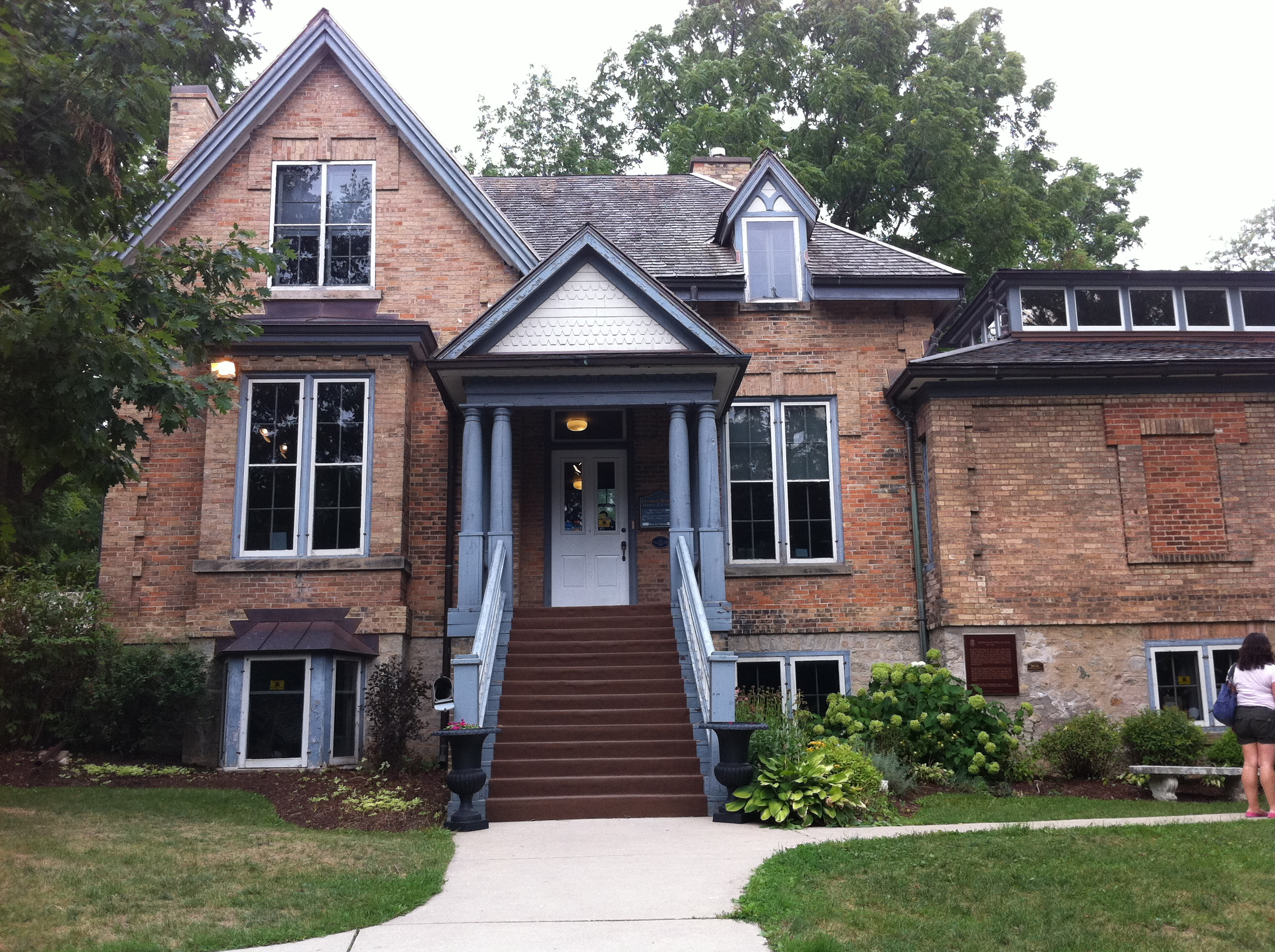 Homer Watson House / Doon School of Fine Arts National Historic Site of Canada